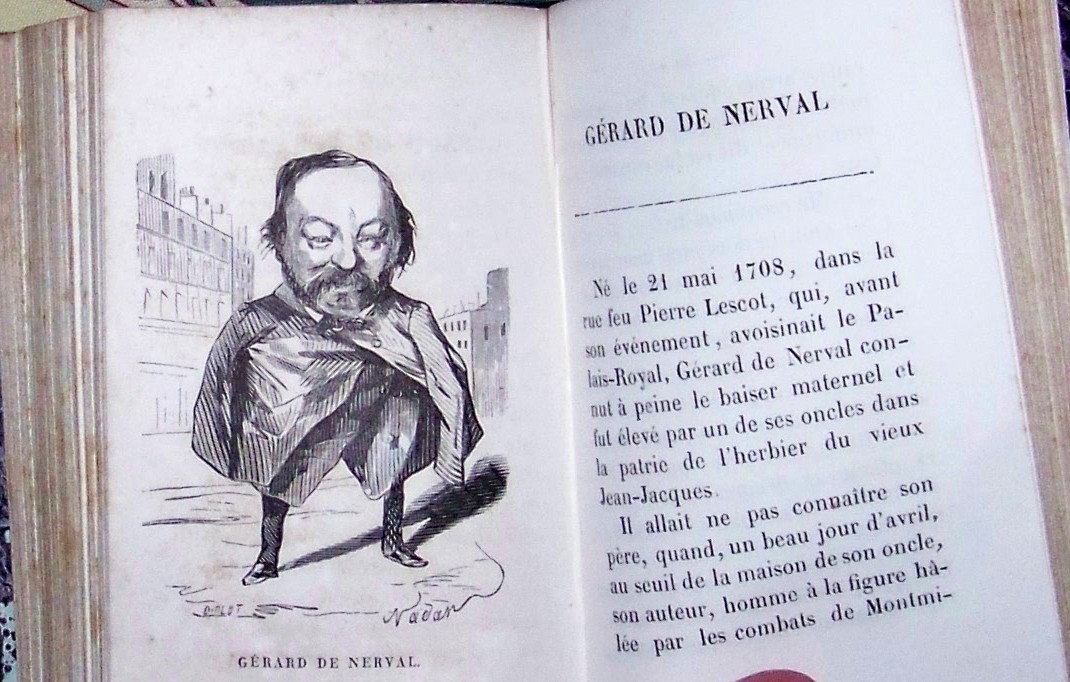 Illustration des Binnettes contemporaines de Commerson